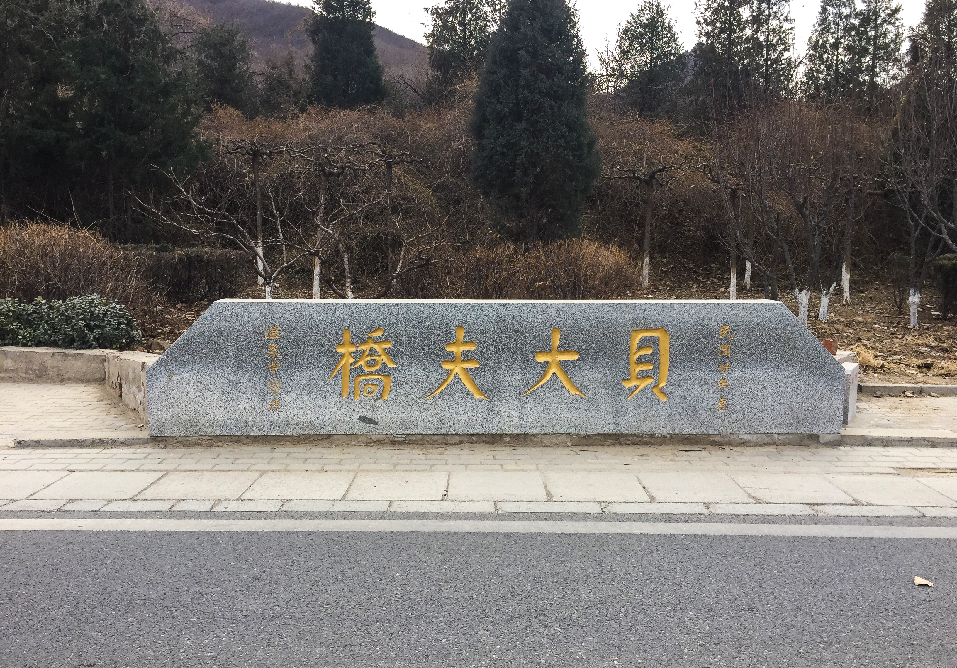 Named in honour of Dr. Jean Jérome Augustin Bussière, a physician from France.